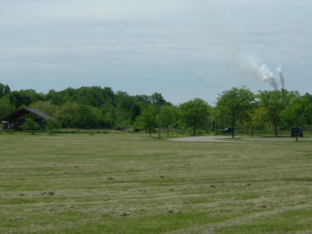 View of steamstacks for Mill Creek Power Plant viewed from the parking lot of the Farnsley Morman Landing